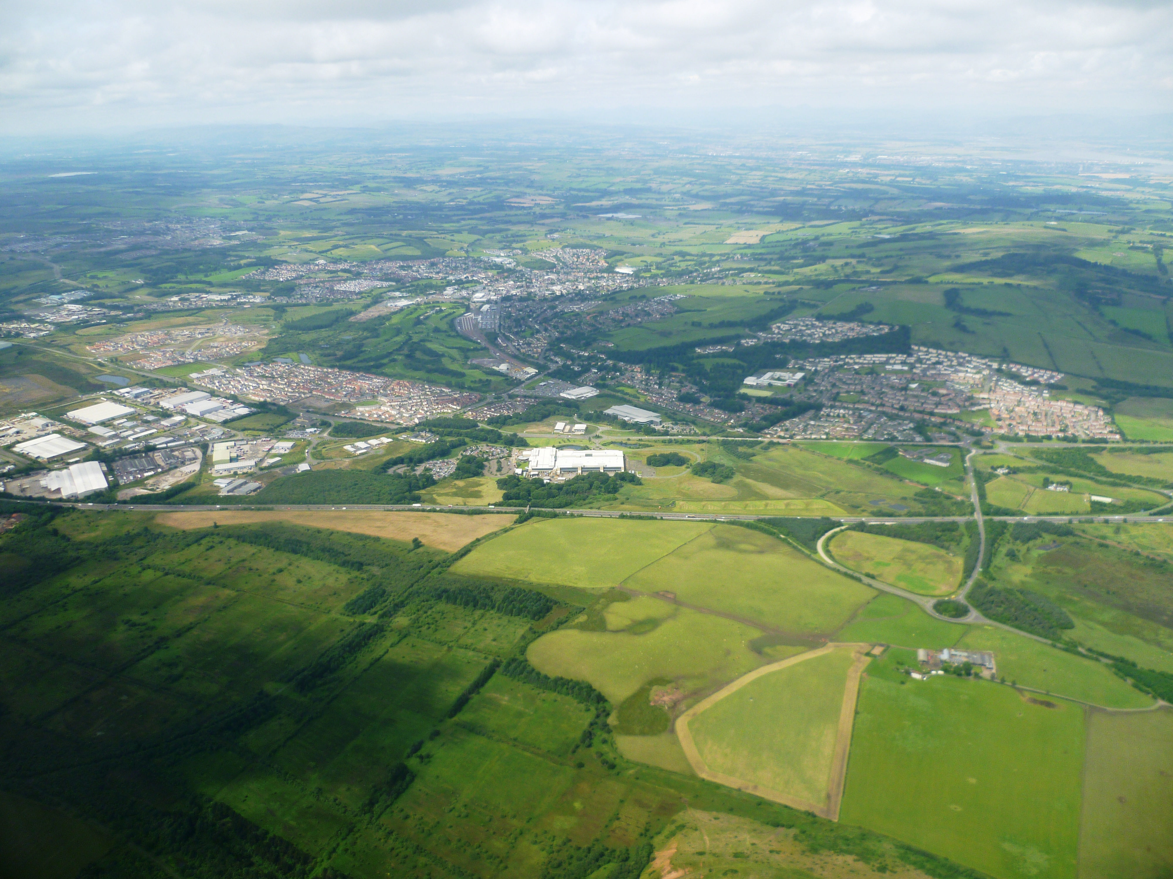 View of Bathgate, West Lothian from an aeroplane approaching Edinburgh Airport. The town can be seen on the north side of the M8 motorway with the Whitehill Industrial Estate on the left, the Pyramids Business Park in the centre and Boghall on the right.